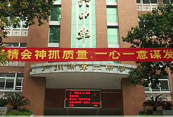 Image of Guangzhou No.2 High School main cmpus.